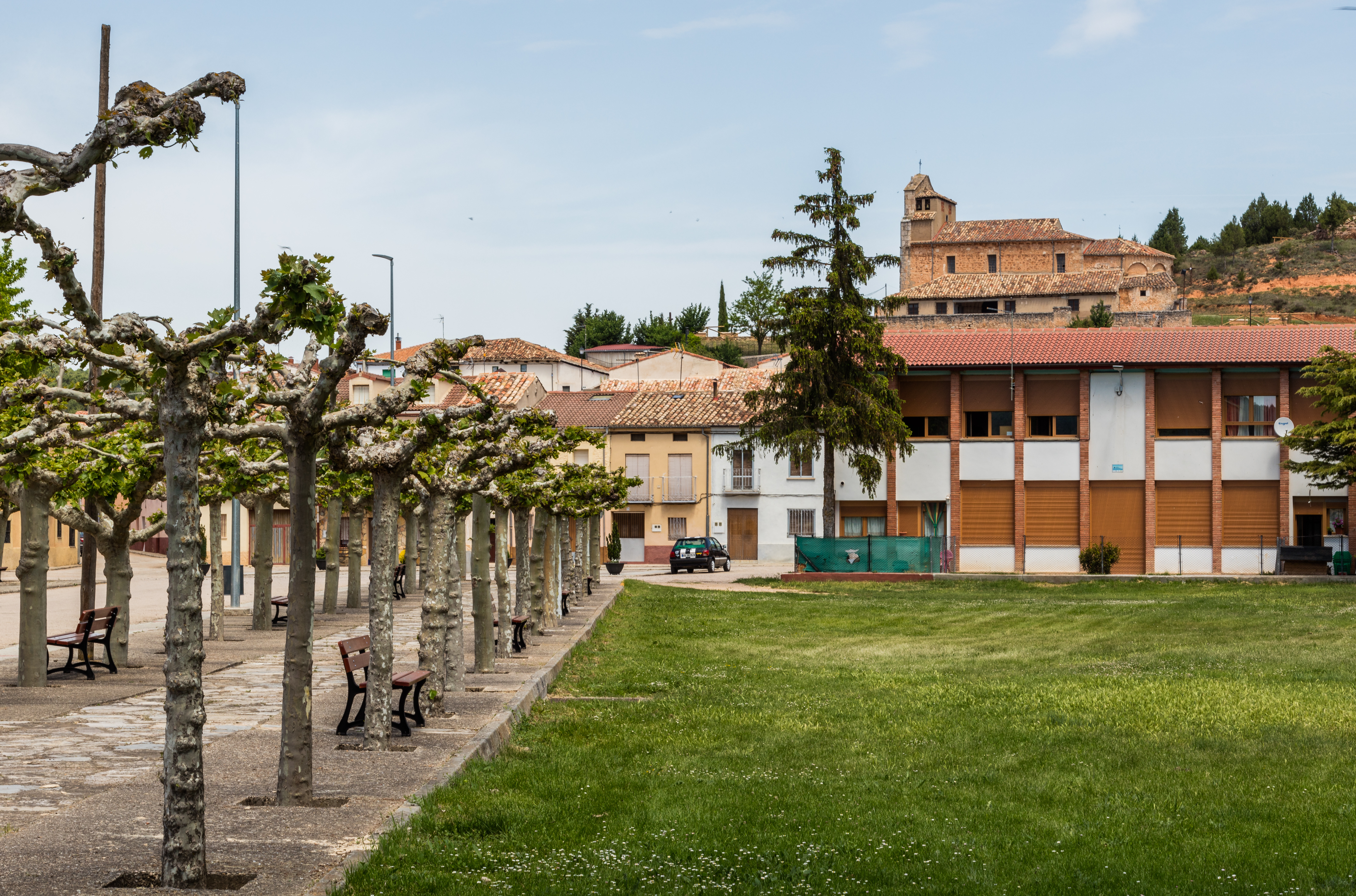 Valdenebro, Soria, Spain